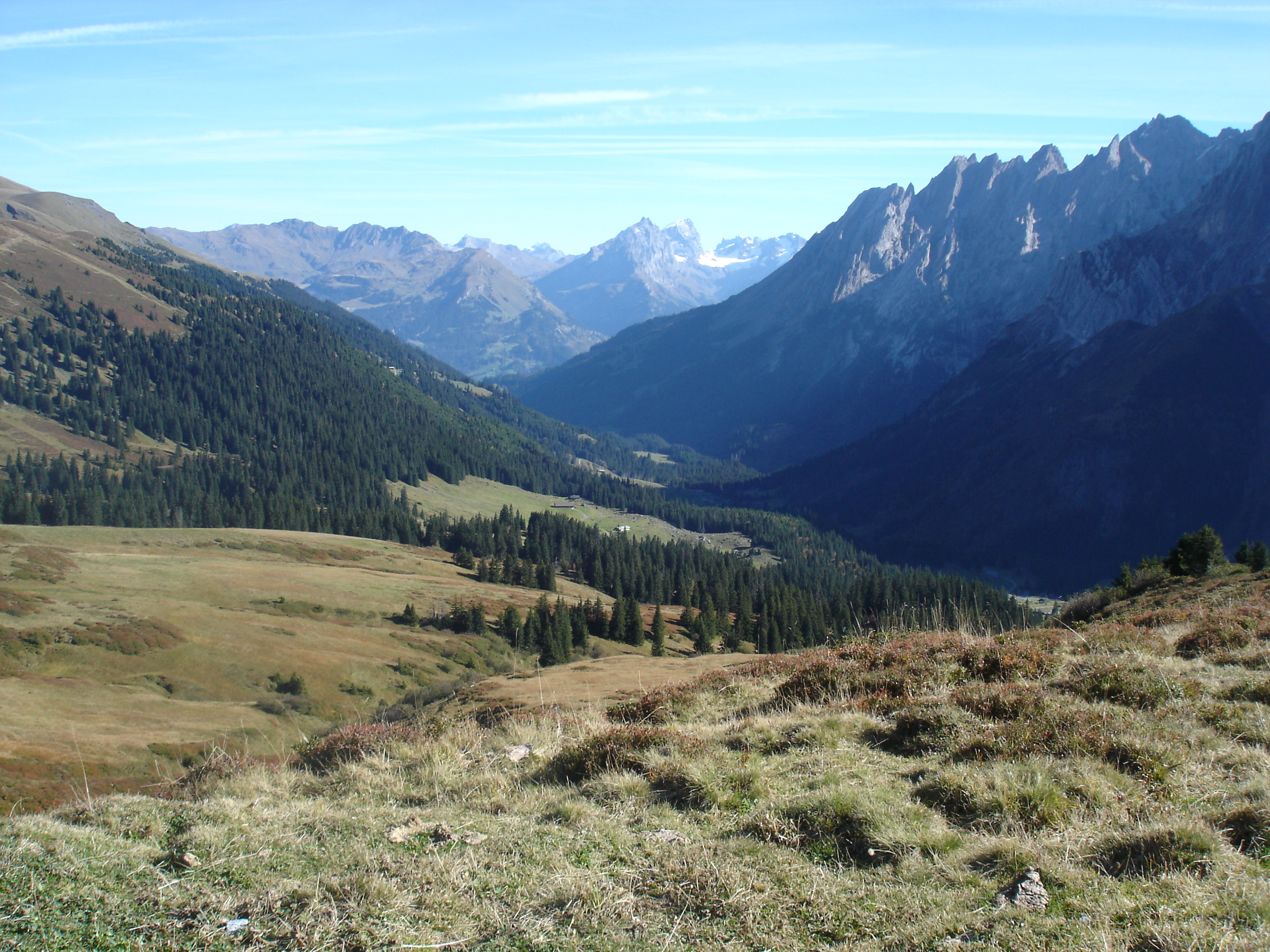 Rosenlauital view from the Grosse Scheidegg